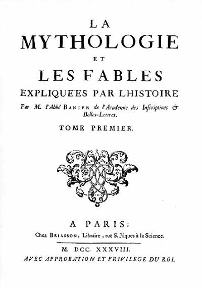 Abbé Antoine Banier: Mythology